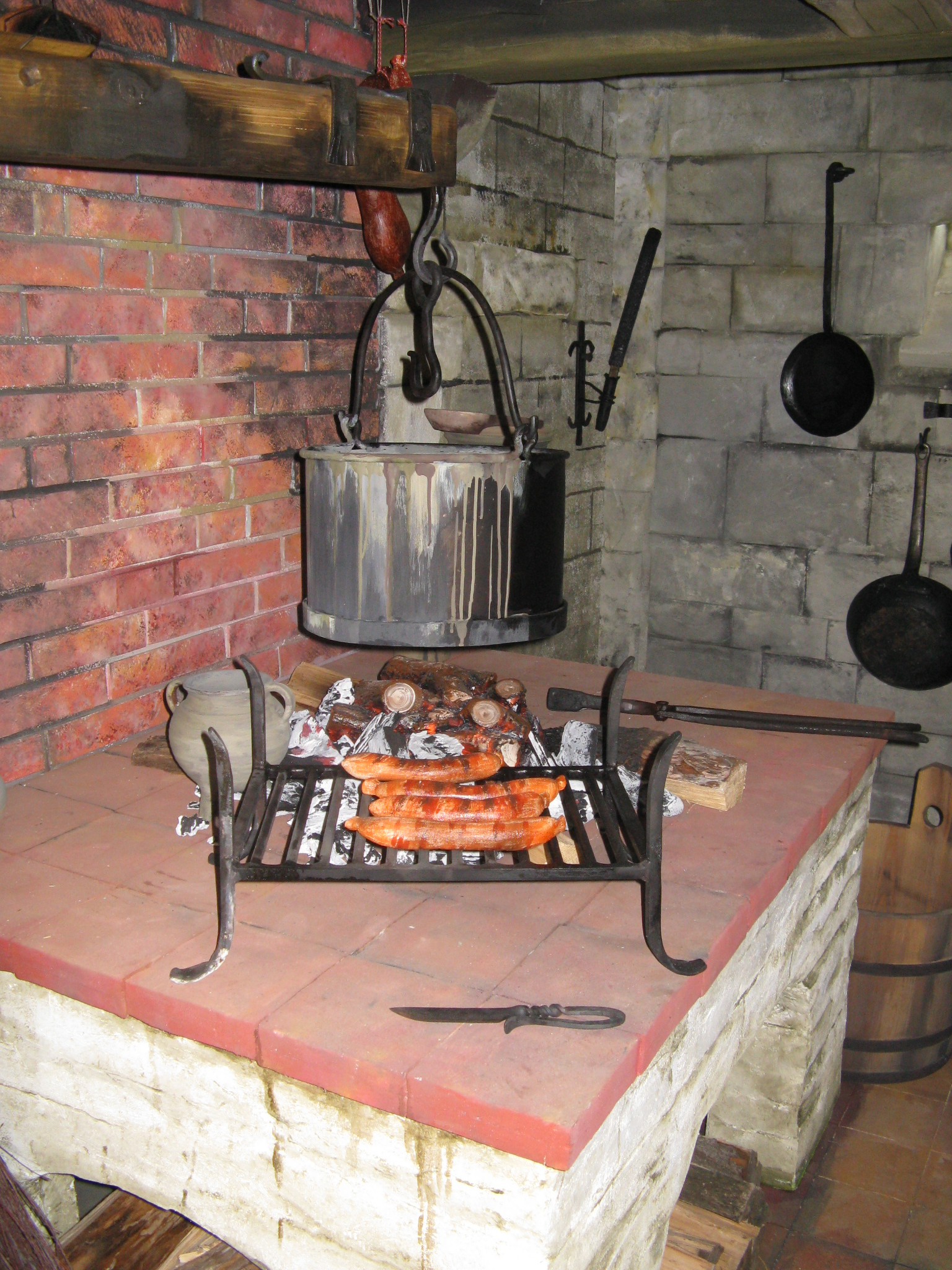 Medieval "Bratwurst" kitchen in monastery, reconstruction